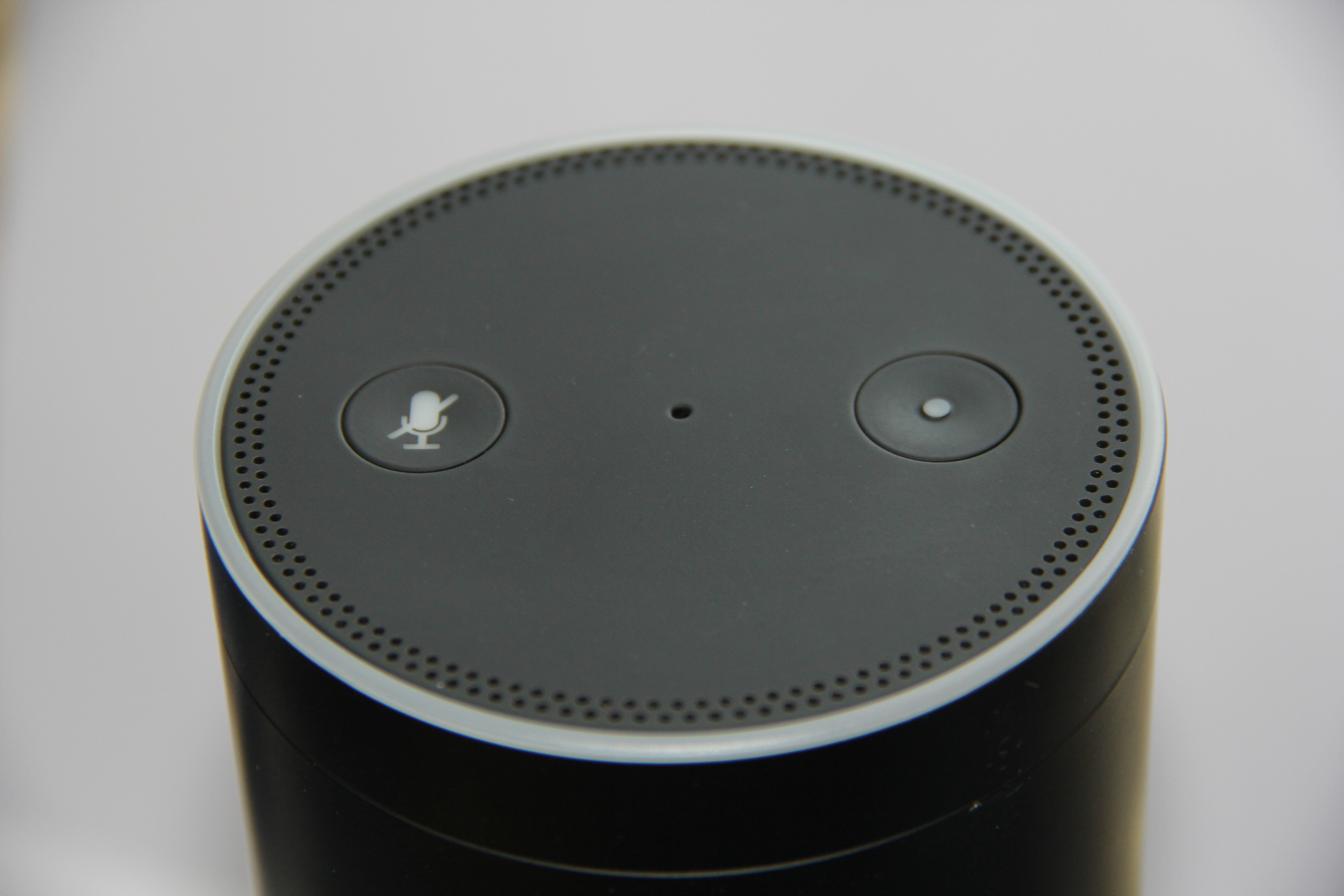 Amazon Echo (shortened and referred to as Echo) is a brand of smart speakers developed by . The devices connect to the voice-controlled intelligent personal assistant service Alexa, which responds to the name "Alexa". This "wake word" can be changed by the user to "Amazon", "Echo" or "Computer".